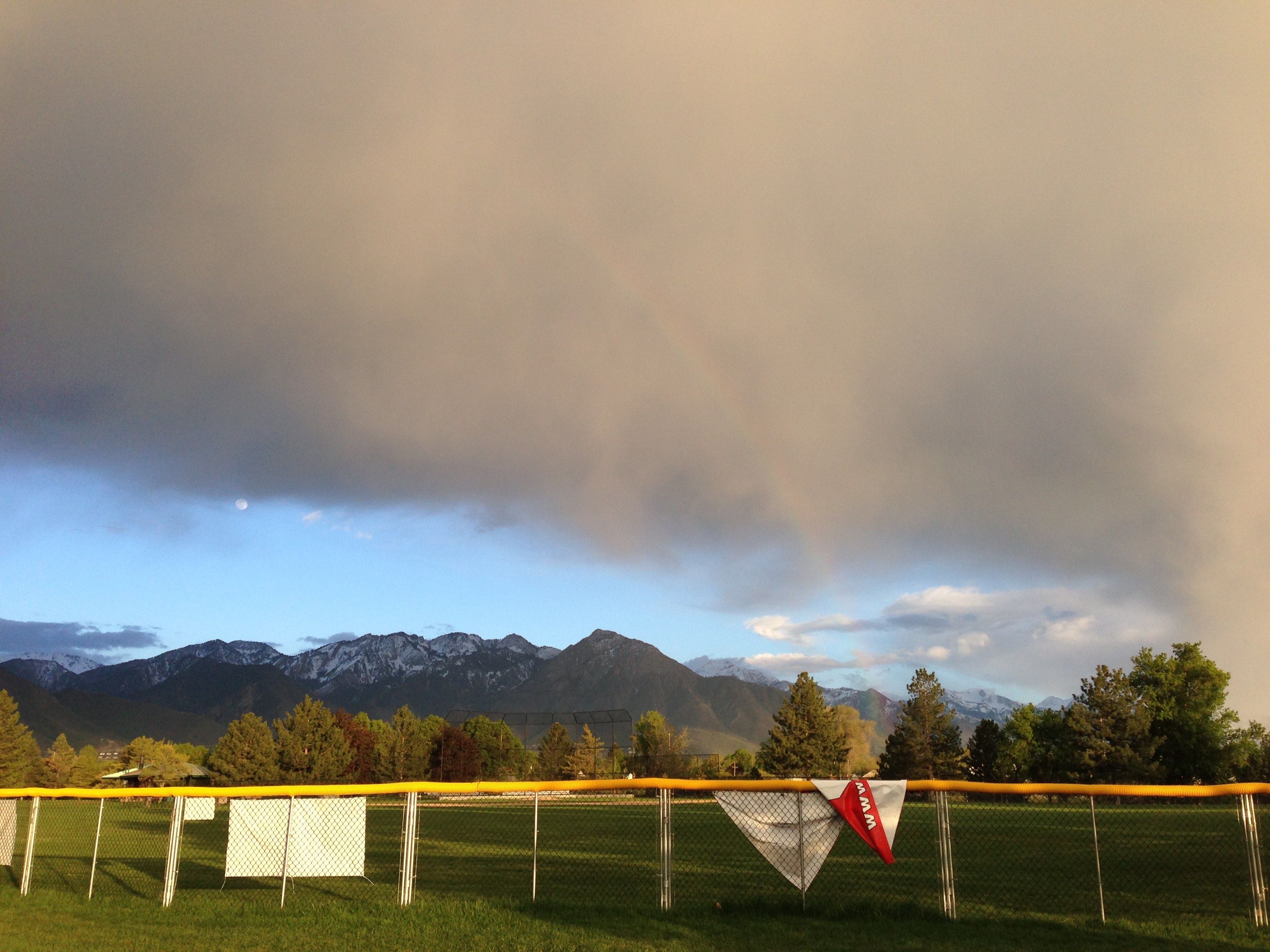 Baseball field at Salt Lake City, Utah, in Sugar House Park.